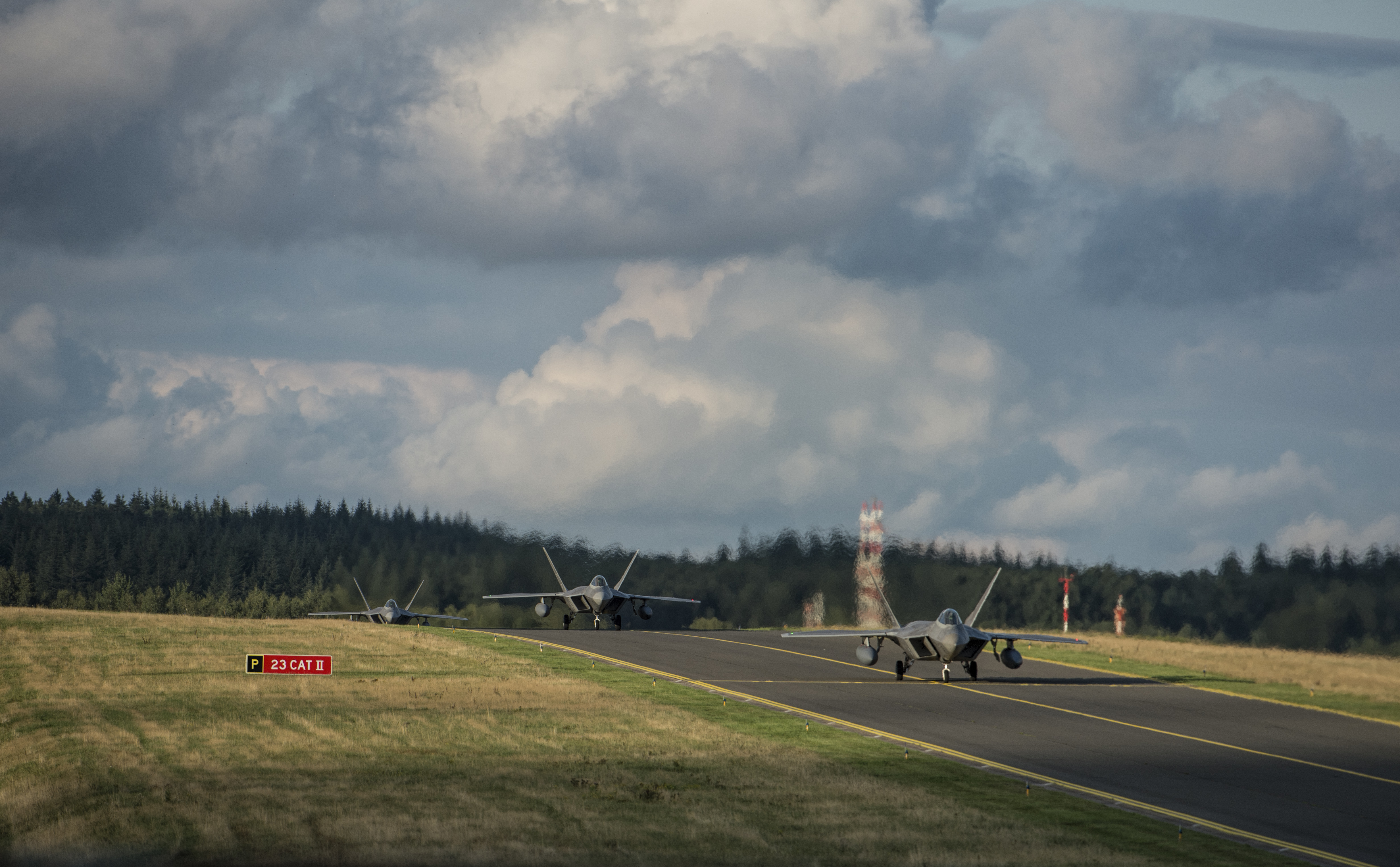 F-22 Raptor fighter aircraft pilots assigned to the 95th Fighter Squadron at Tyndall Air Force Base, Fla., taxi on the flightline Aug. 28, 2015, at Spangdahlem Air Base, Germany. The F-22s will conduct dissimilar air training with other Fighter Squadrons in U.S. Air Forces in Europe to include F-15 Eagle and F-16 Fighting Falcon fighter aircraft. The F-22 Raptors will also forward deploy for short periods of time to non-U.S. NATO bases.The USAF’s forward presence in Europe allows training with U.S. allies and partners to develop and improve regional security. (U.S. Air Force photo by Staff Sgt. Christopher Ruano/Released) Unit: 52nd Fighter Wing Public Affairs